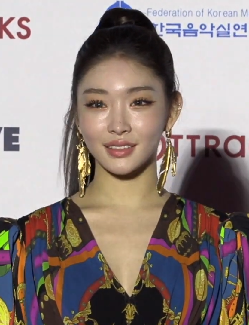 Chungha at Gaon Music Awards red carpet on January 8, 2020.